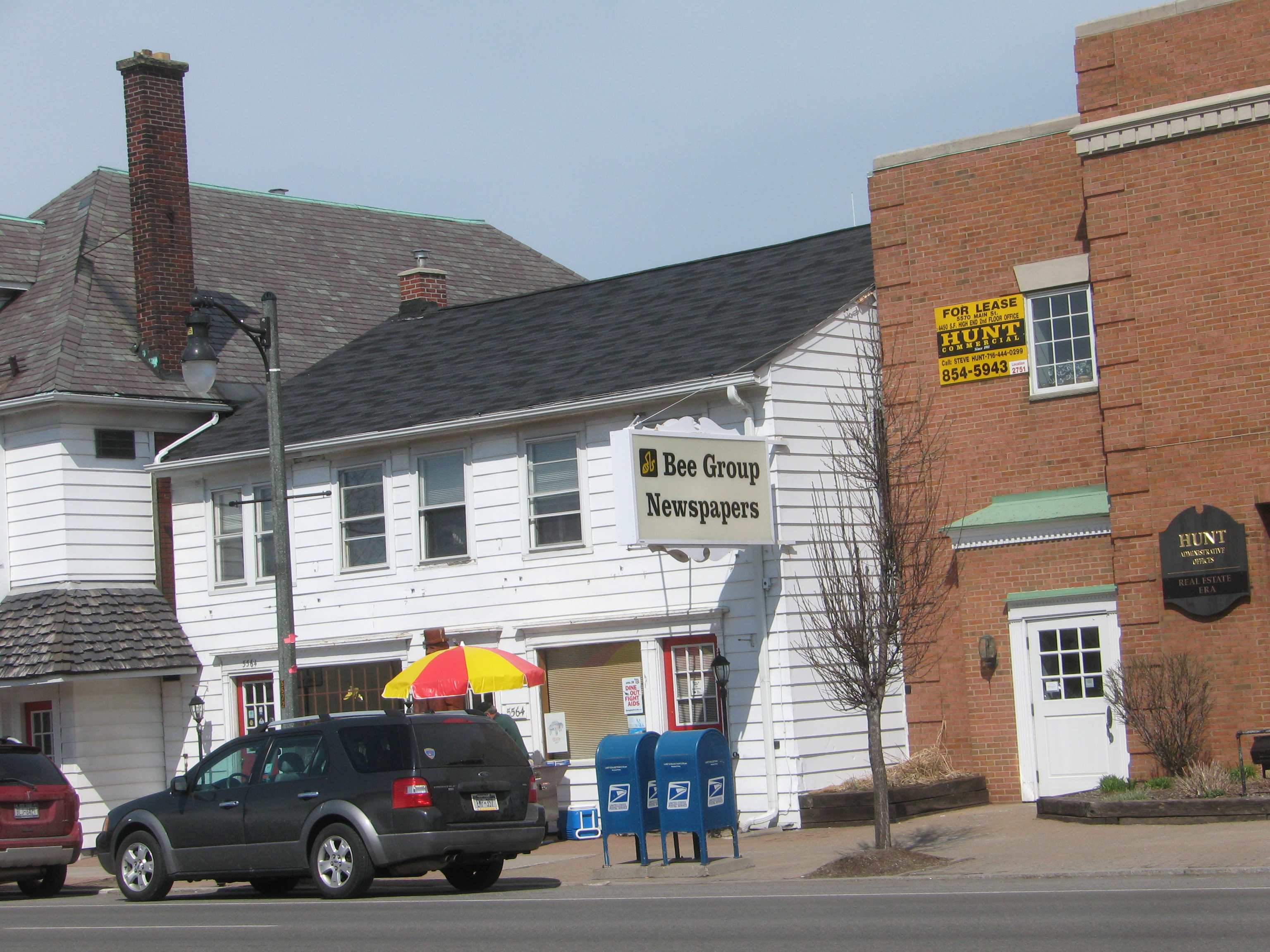 Headquarters of the Amherst Bee and the Bee Group in Amherst, New York